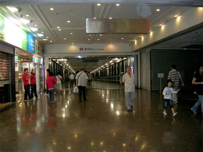 Sceneway Plaza first floor, showing the MTR station entrance.